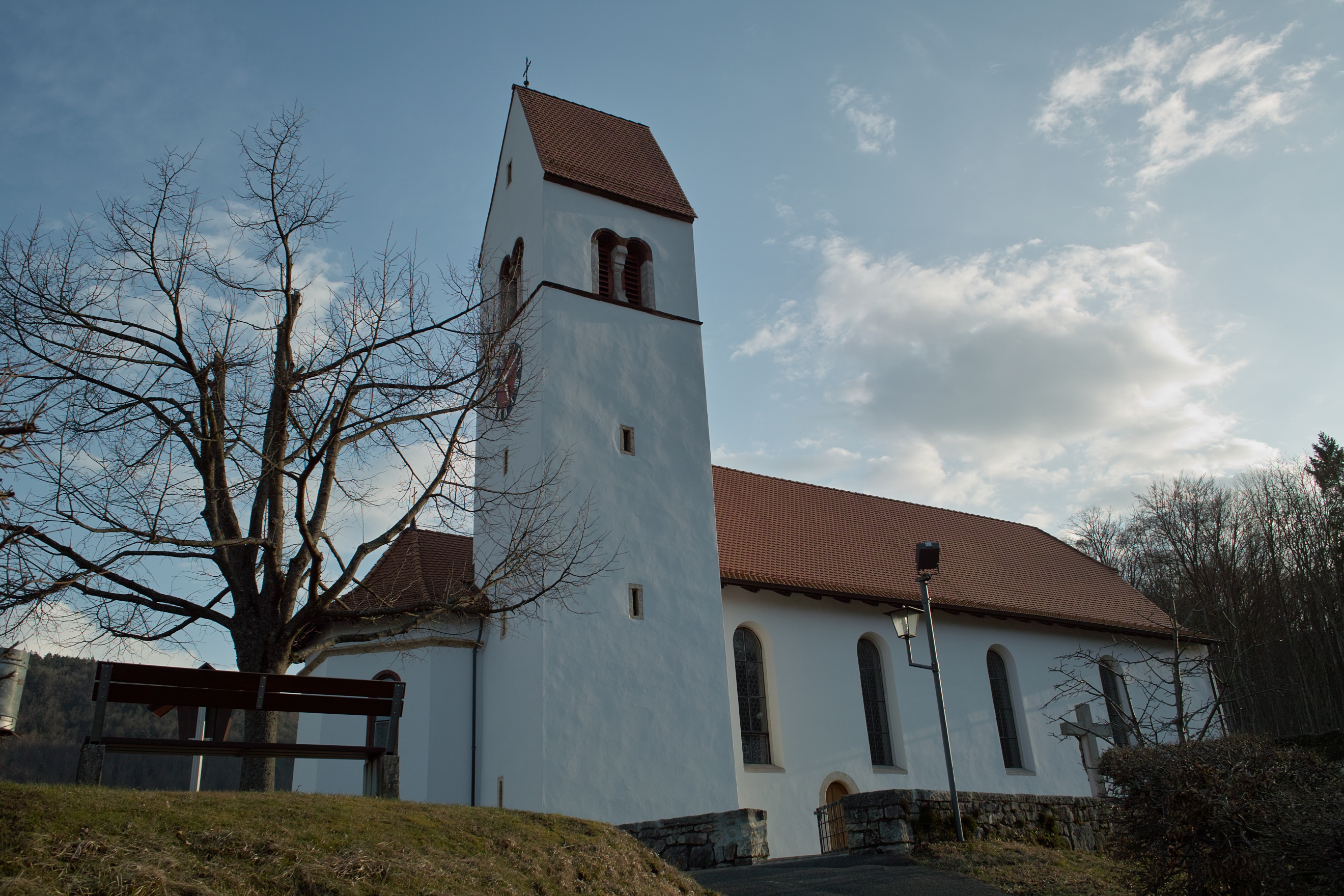 Meltingen, Canton of Solothurn, Switzerland. Church.